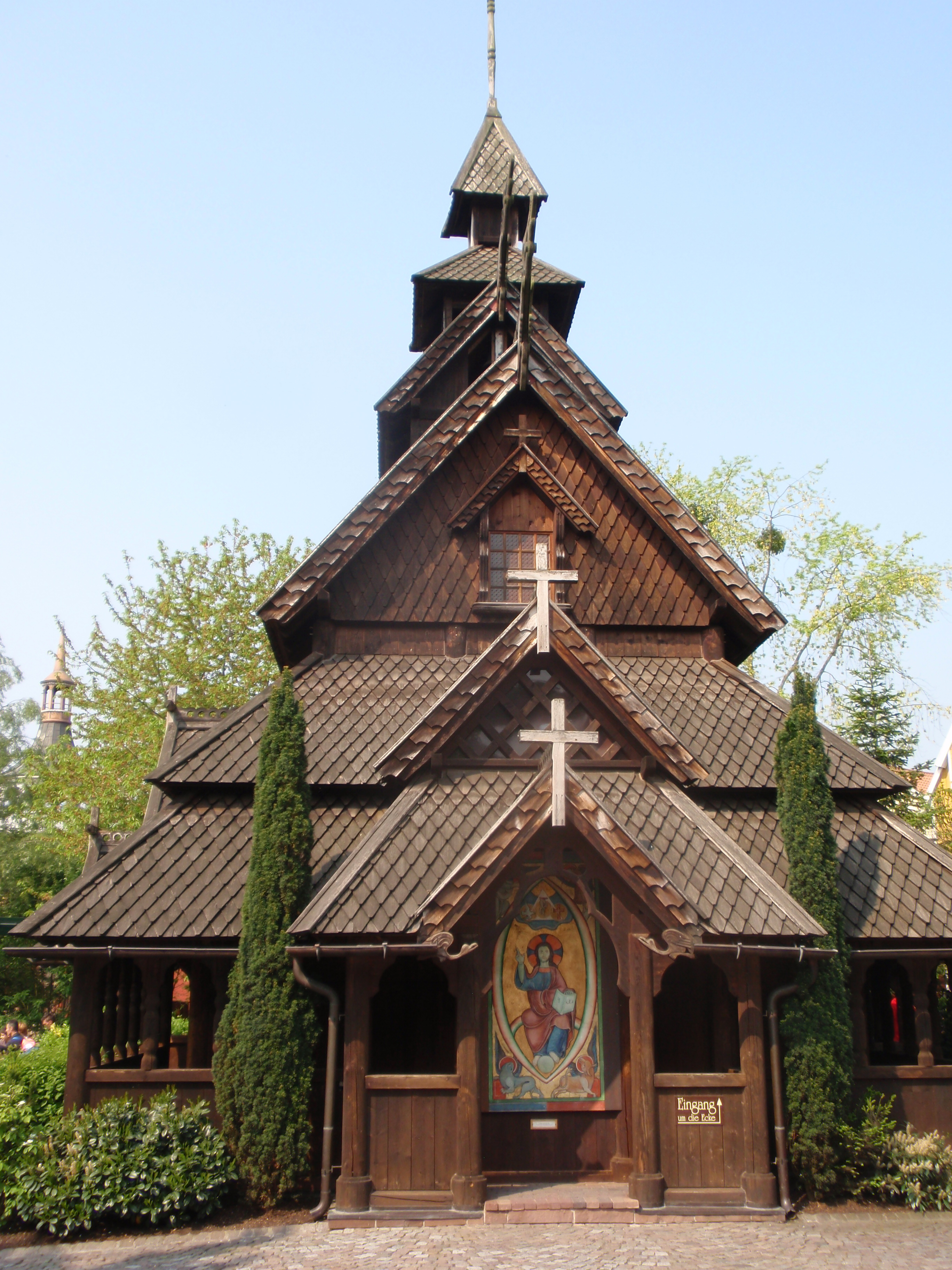 norvegian Stave church in the "scandinavian town" of the Europa-Park Rust